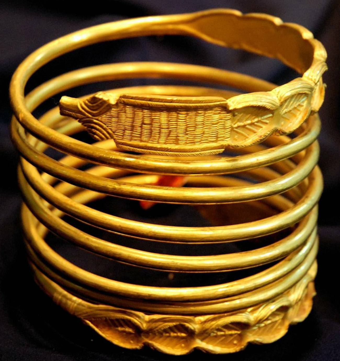 Rotated for making it vertical